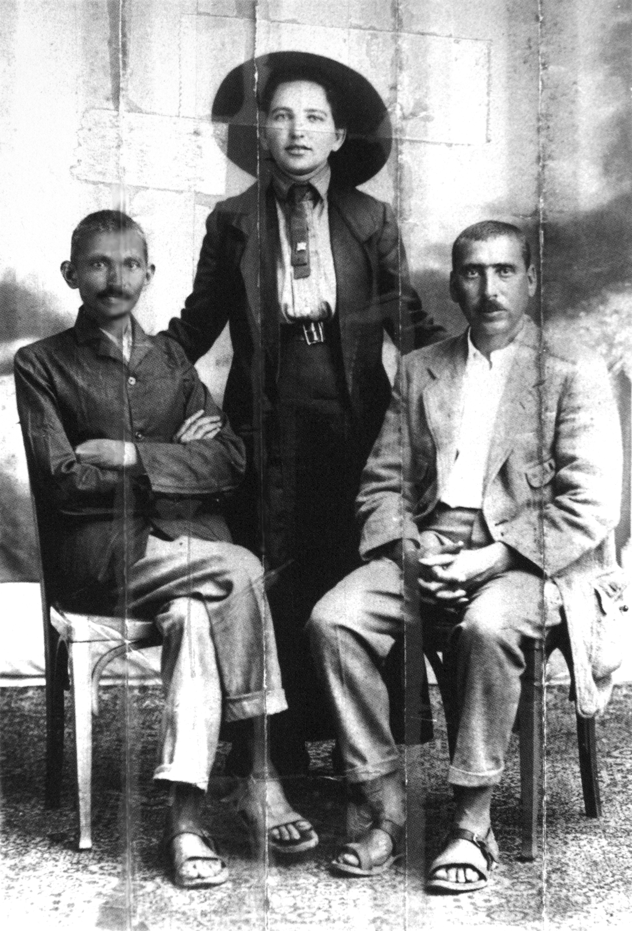 Gandhi (left), Sonia Schlesin, his secretary, and Dr. Hermann Kallenbach. Kallenbach sewed this photo in the collar of his jacket before joining Gandhi in England during the First World War. Being of German origin, he feared being arrested and the image seized. He was effectively arrested, but the police never discovered the photo. This photo has been retouched to diminish the creasing of the picture